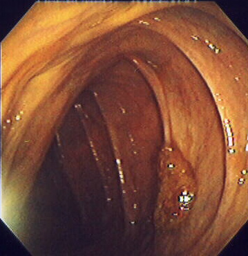 Endoscopic image, 1 of 4, of an endomucosal resection of a sessile colon polyp. Next Image Stephen Holland, MD Category:Endoscopic images